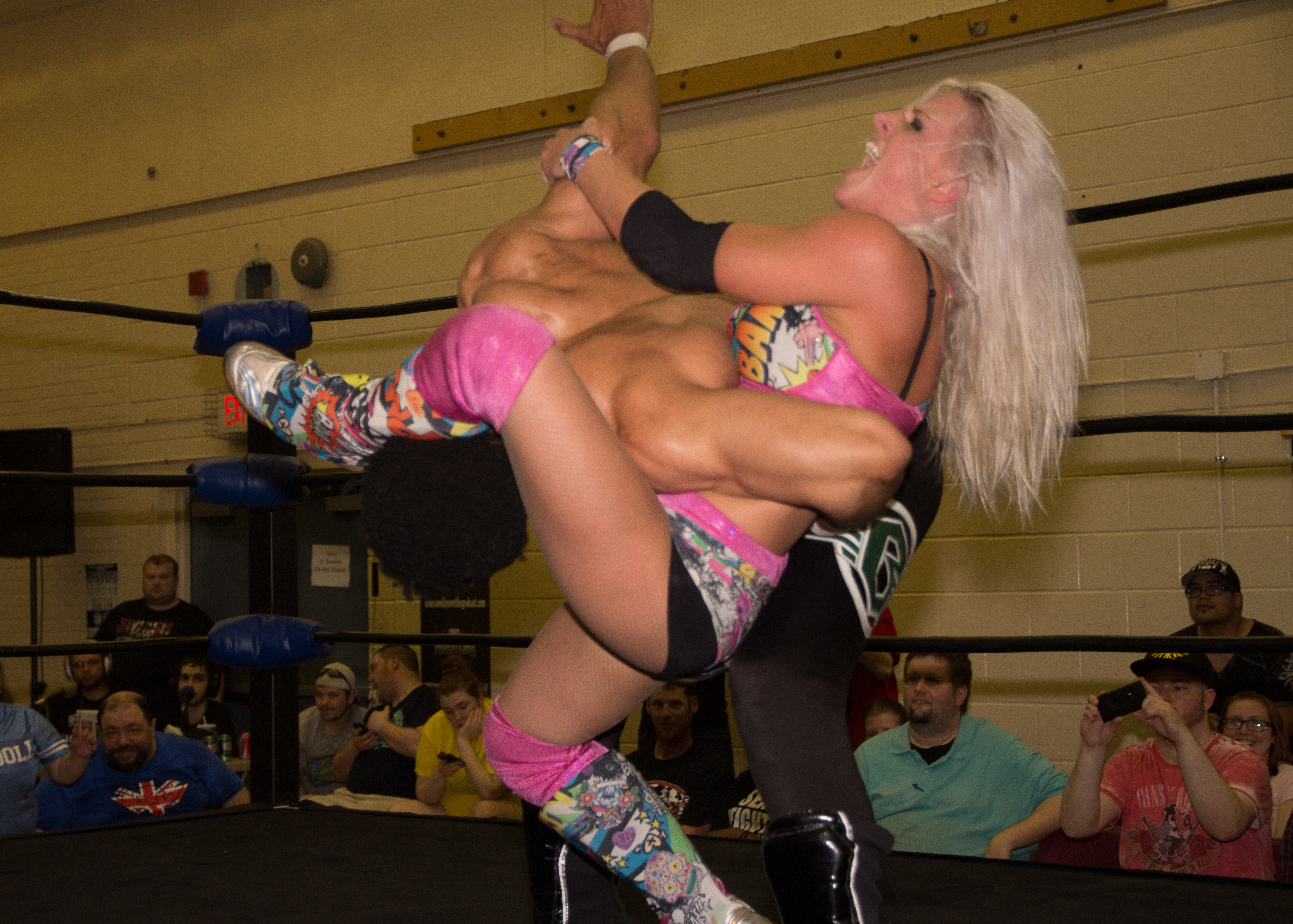 Candice LeRae executing an octopus hold on Brent Banks